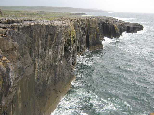 Sea cliffs near Ailladie